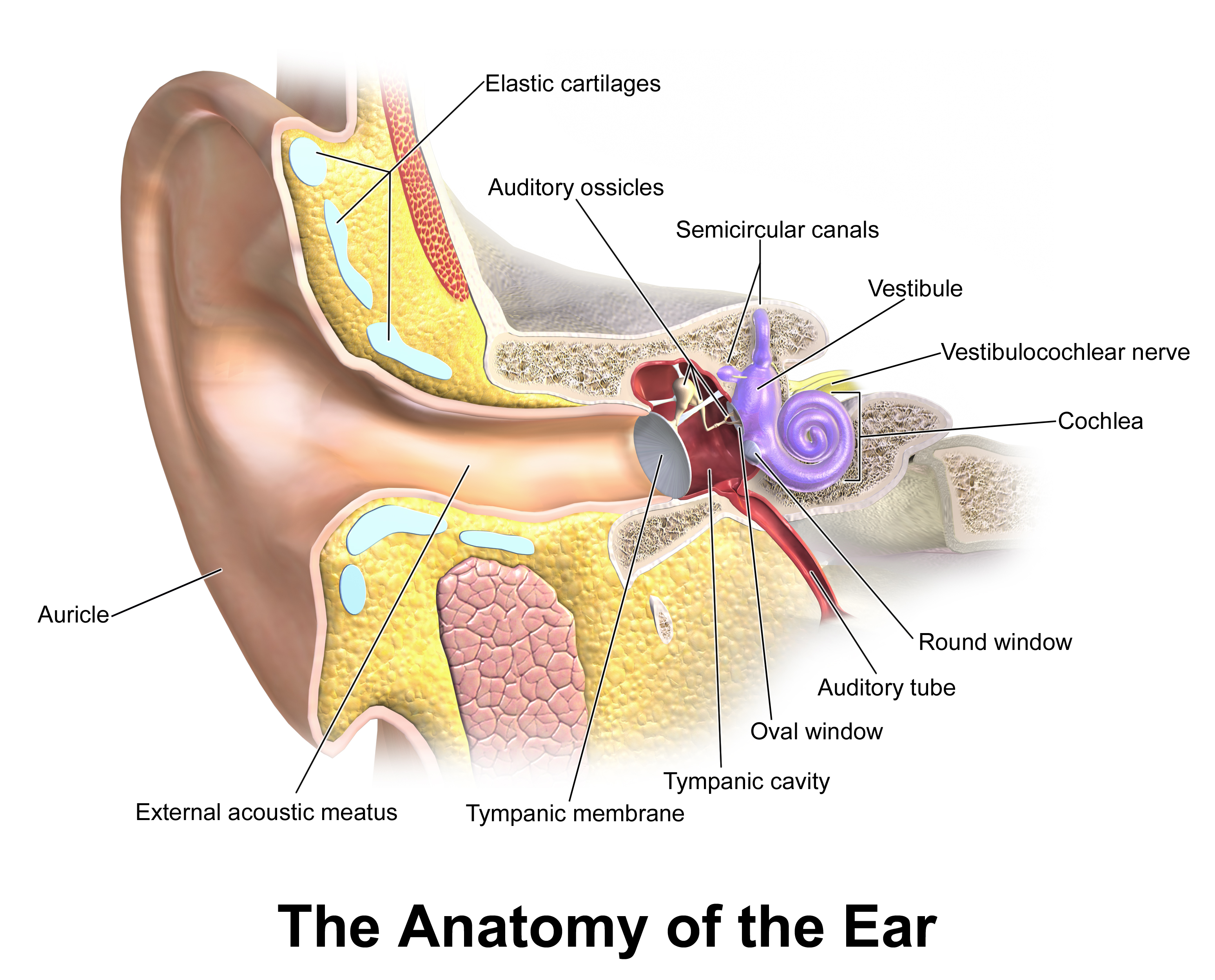 Anatomy of the Ear. See a full animation of this medical topic.